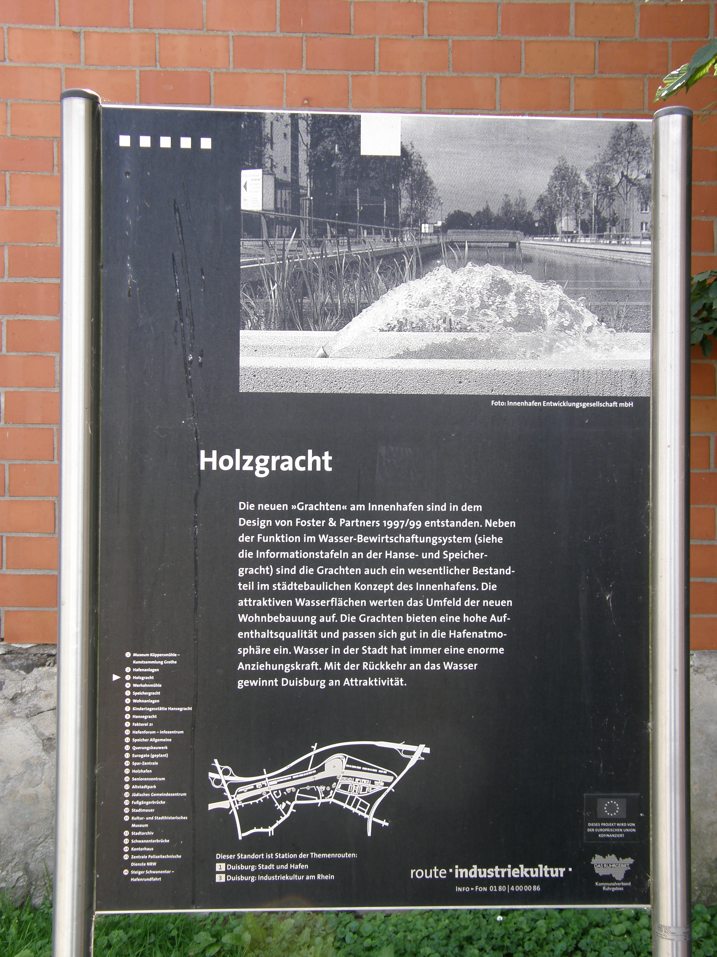 Holzgracht in Duisburg, Information from Route der Industriekultur